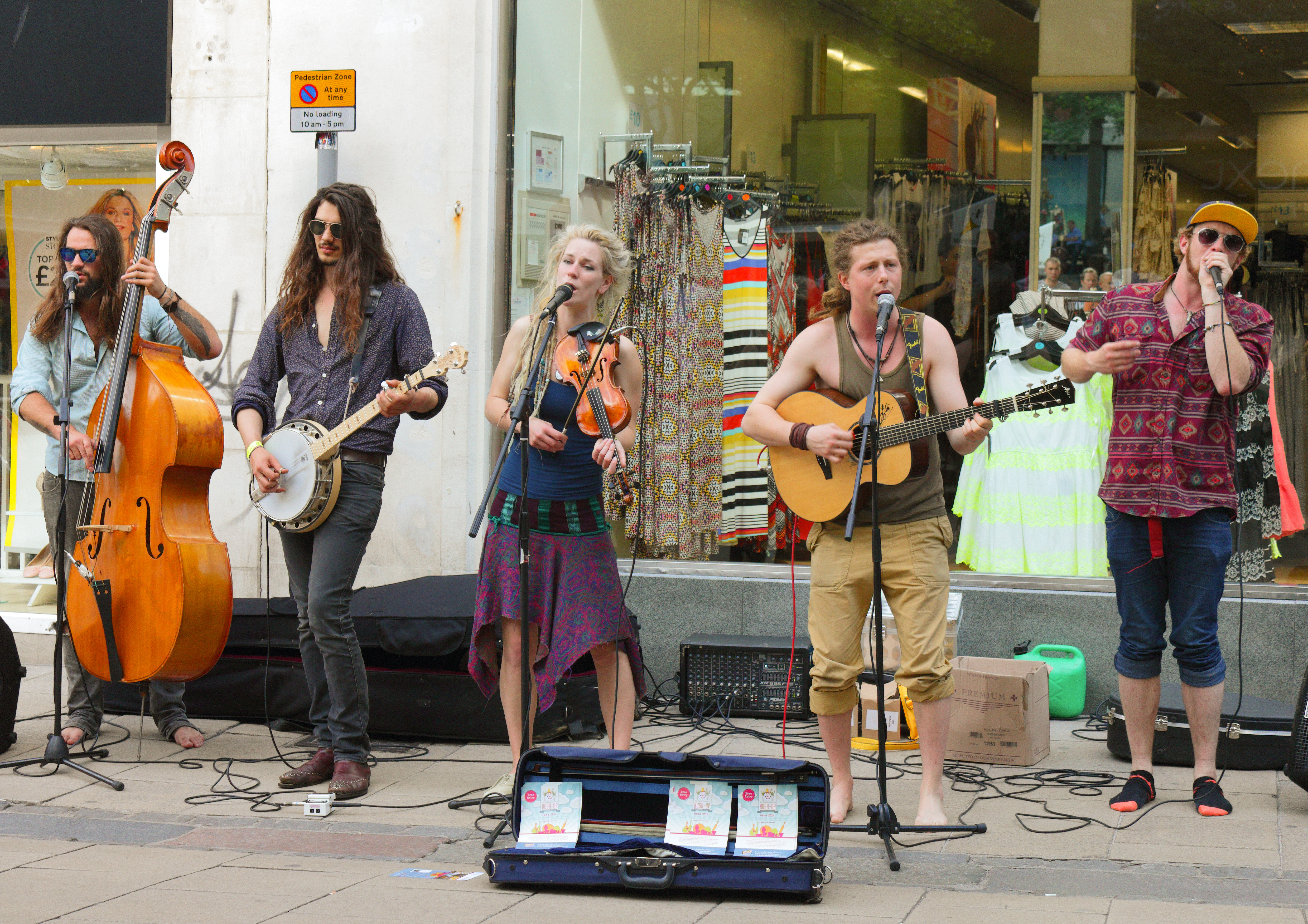 Coco and the Butterfields busking on The Walk, Norwich, June 2014